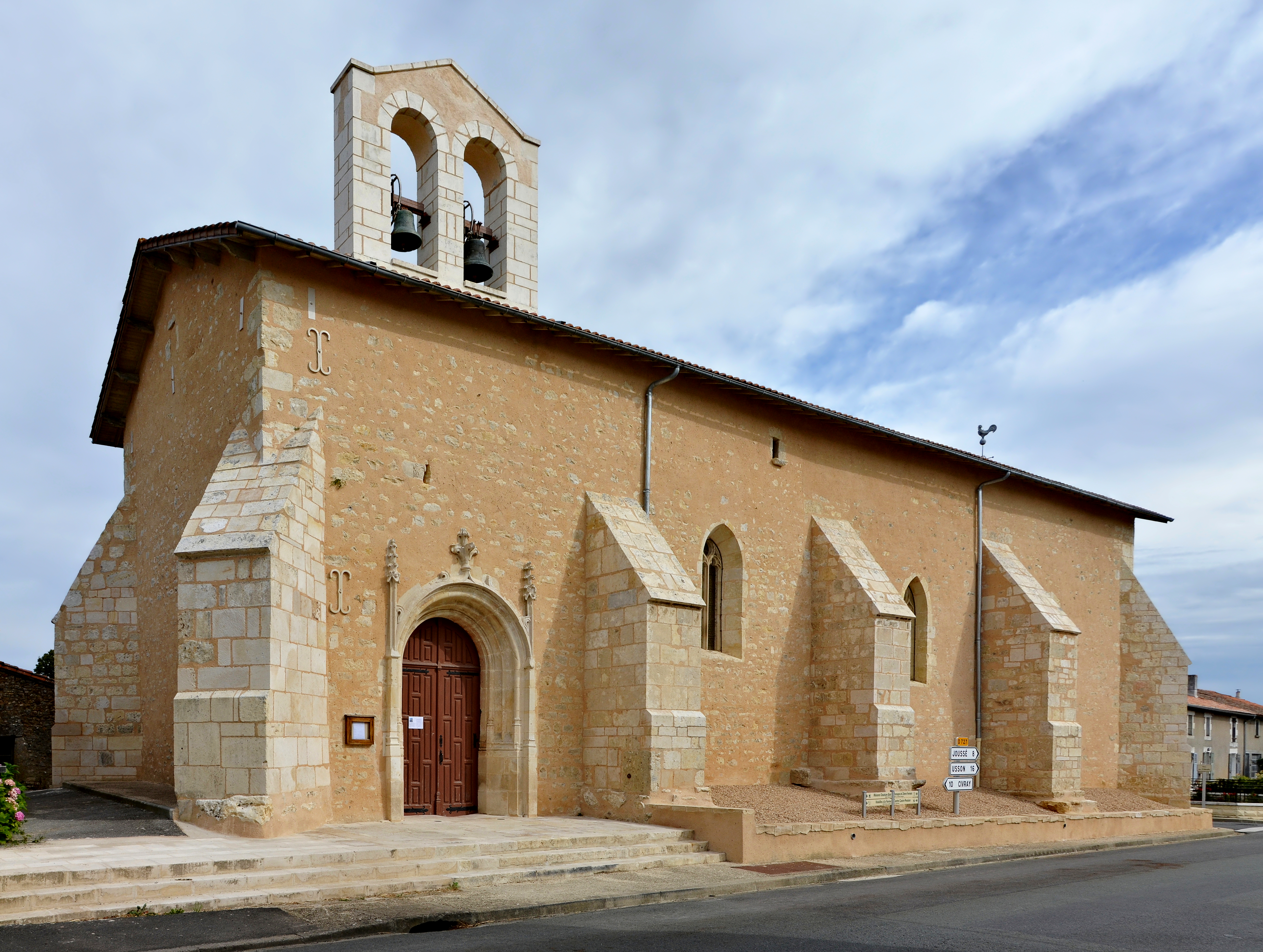 South-West view of the church (15th and 16th centuries) of La Chapelle-Bâton, Vienne, France. .